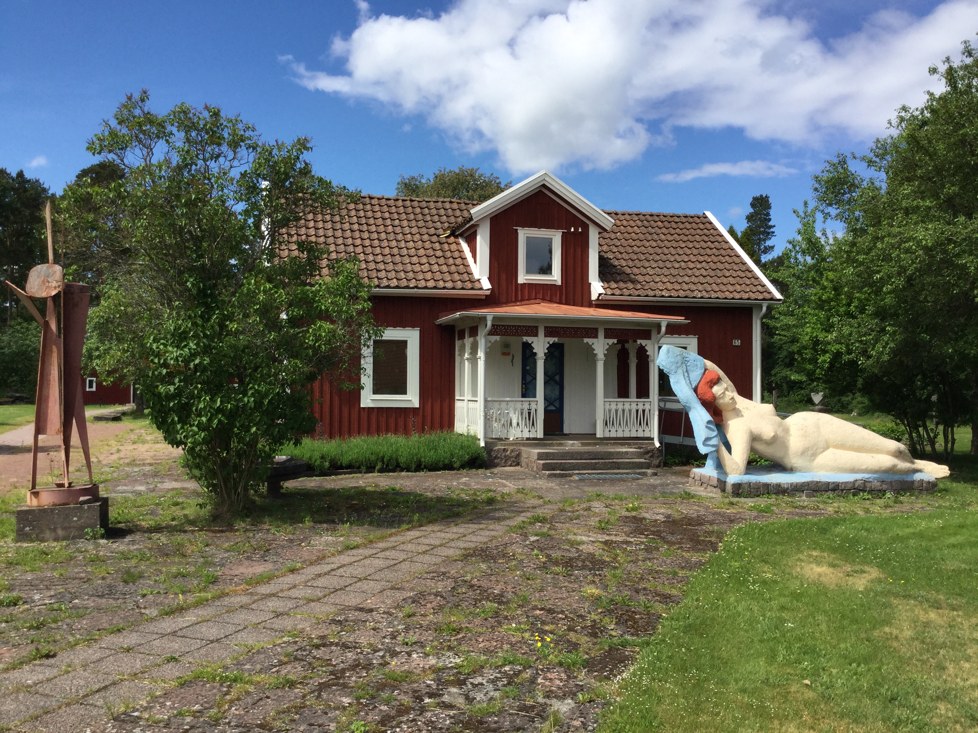 Källströmsgården in Påskallavik, Oskarshamn Municipality, Kalmar County, in June 2017. The Swedish sculptor Arvid Källström lived here from 1939, intill his death in 1967.